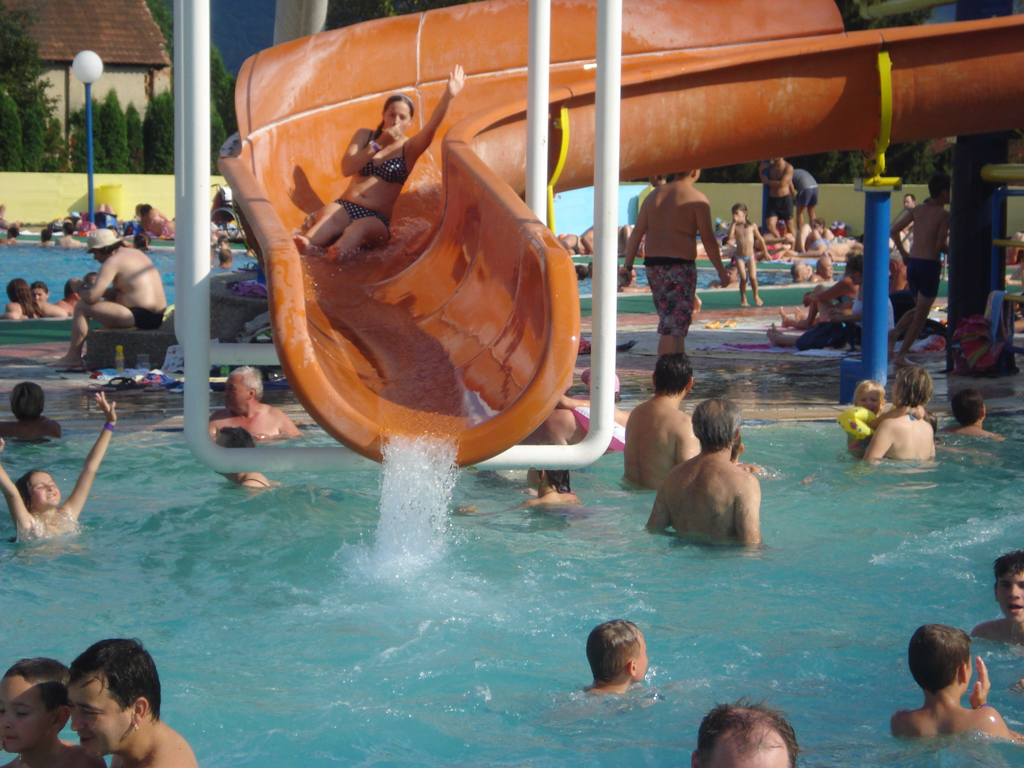 Varaždinske Toplice (Croatia) - water slide